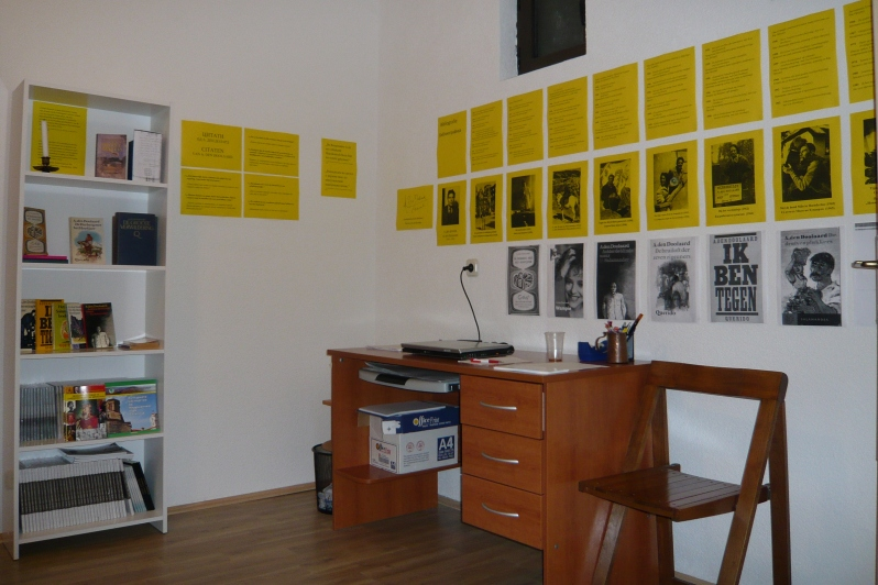 This is an exhibition of books and documents about the life and work of the Dutch writer A. den Doolaard in the City of Ohrid, where he had spent part of his life writing books about Ohrid and Macedonia.